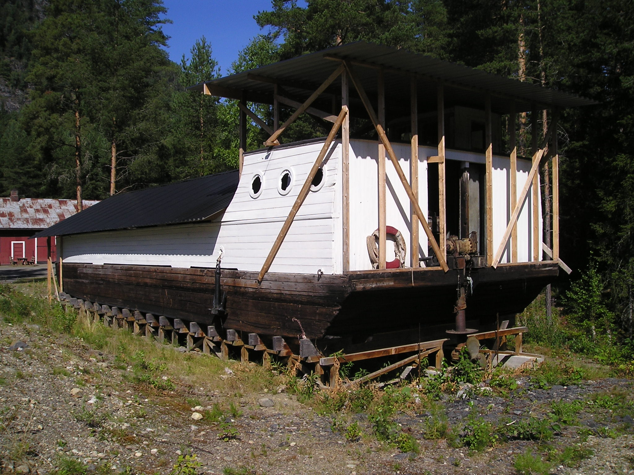 MF "Vefaldsund II".jpg